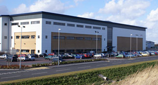 This is a photograph of the Nisbets new warehouse, Access-18.